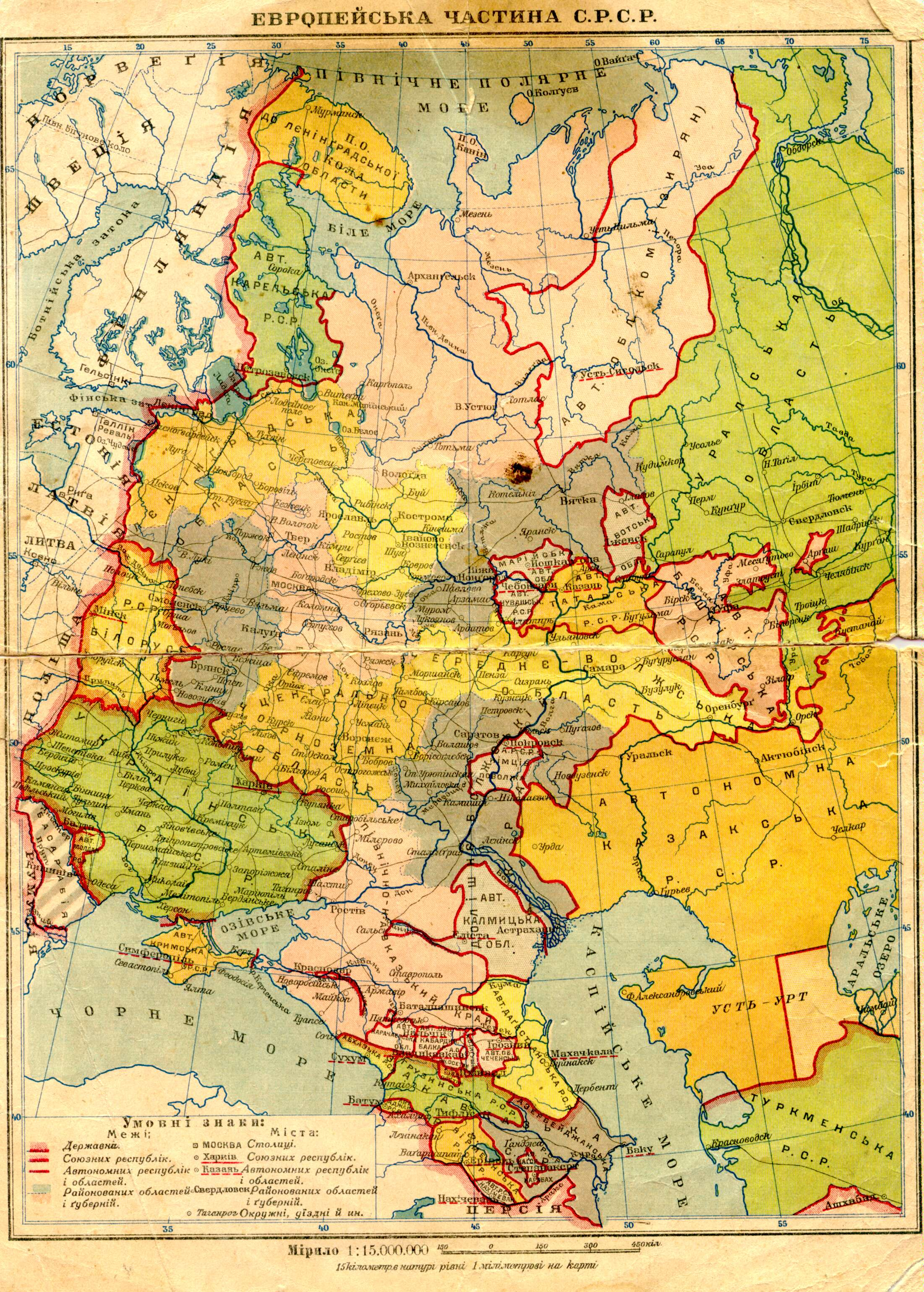 Map of the European part of the USSR in 1929.